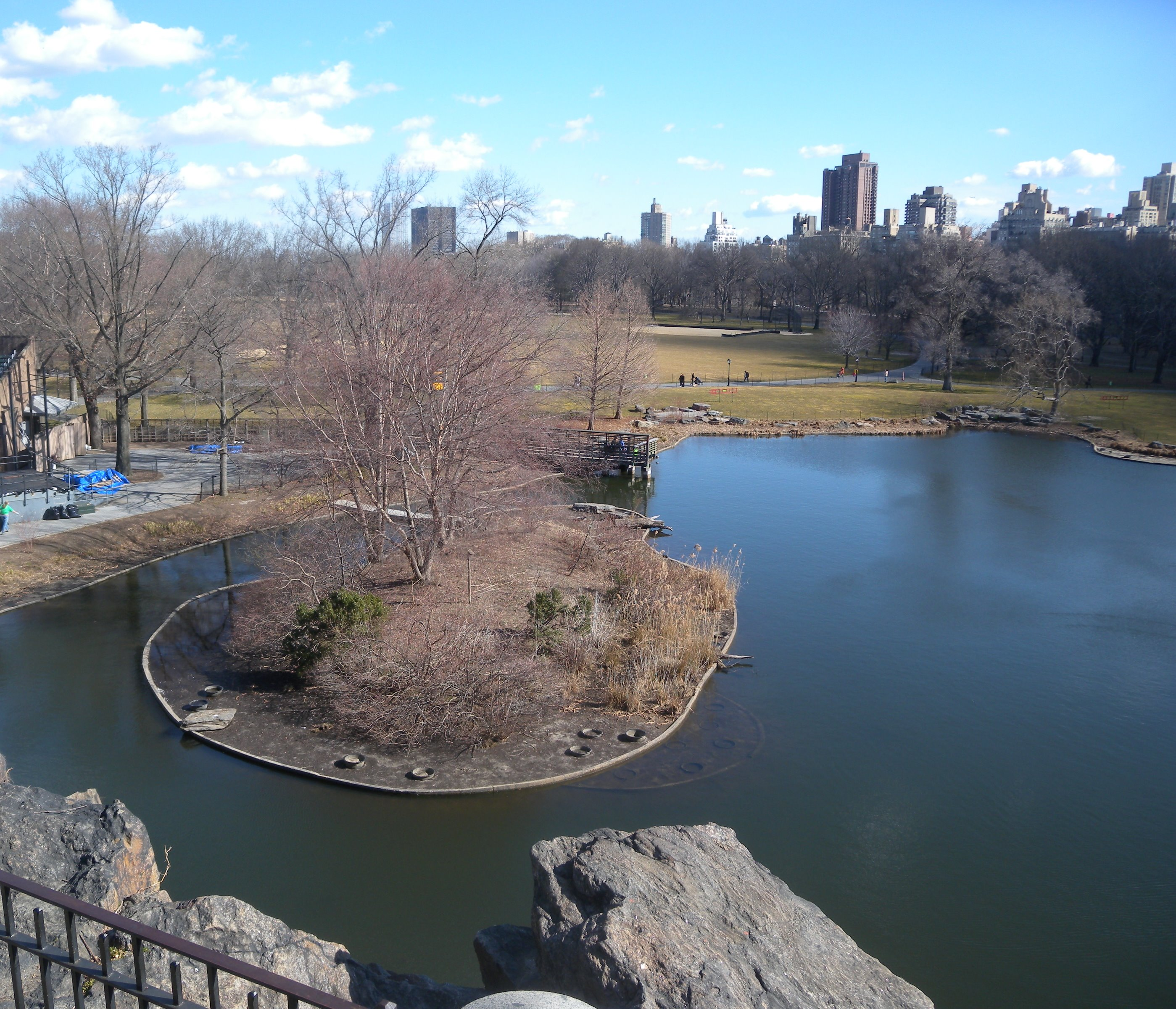 Looking northeast from below castle, at Turtle Pond's island on a warm sunny winter afternoon.